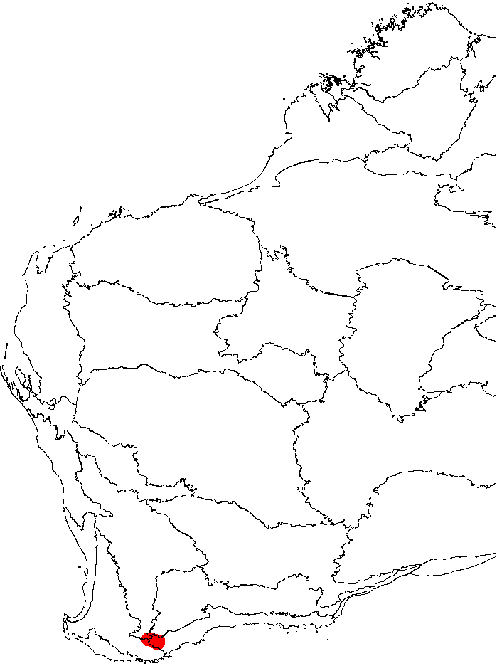 This is a map of Western Australia, showing the distribution of Banksia aculeata, superimposed on a background of the IBRA 6.1 biogeographic regions.